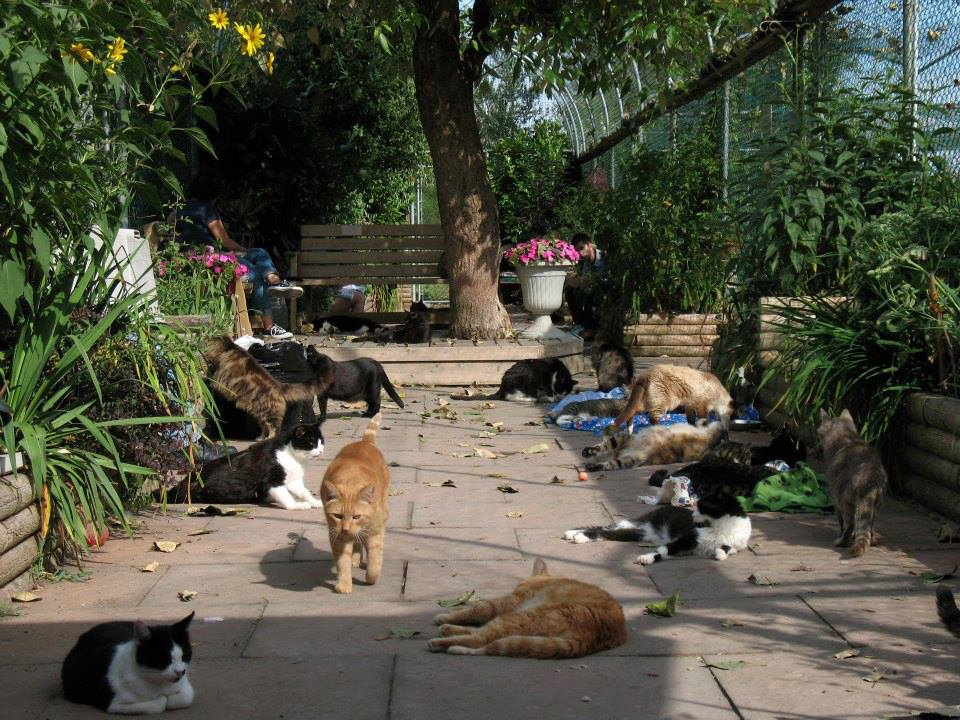 A cat wanders along one of the outdoor garden areas of the Richmond Animal Protection Society cat sanctuary in Richmond, B.C., Canada. Other cats enjoy resting in the shade or sun.